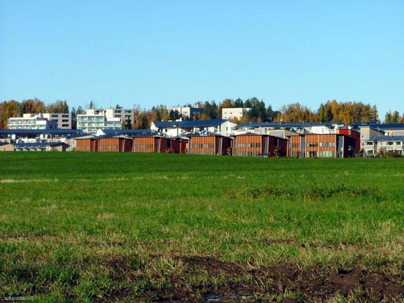 Autumnal view of Latokartano residental area in Viikki, Helsinki, Finland.